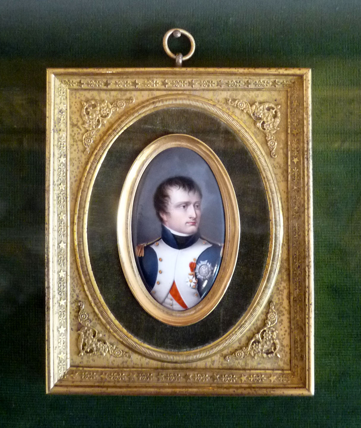 Portrait of Napoléon Ier by Jean-François Soiron (1755-1813) (Musée napoléonien (Ile d'Aix, Charente-Maritime)